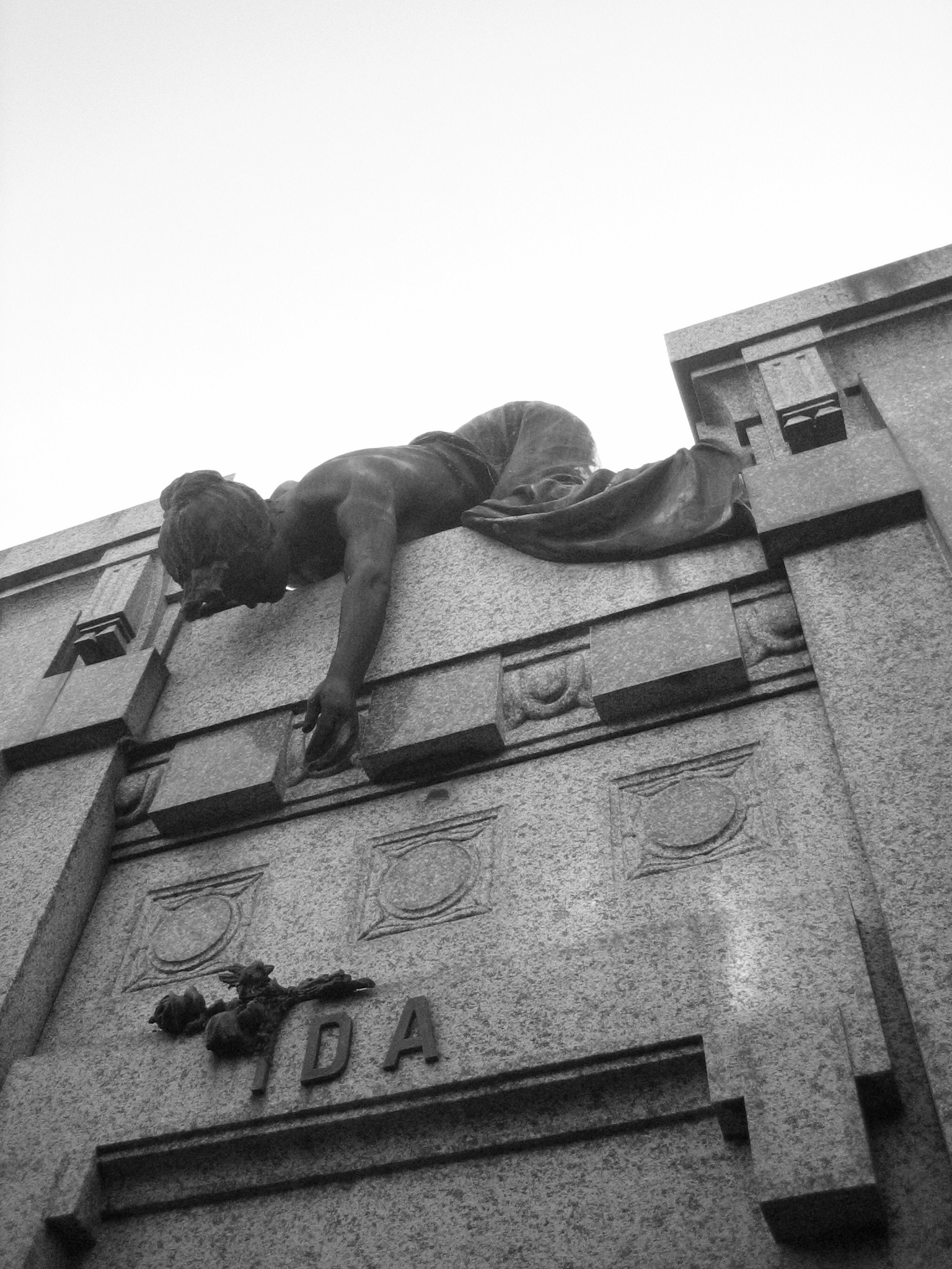 Suzie loved this crypt. We thought the love of a woman's life had died, and she had had this built for him. The distraught woman is at the top, reaching down for her rose, but forever out of reach.